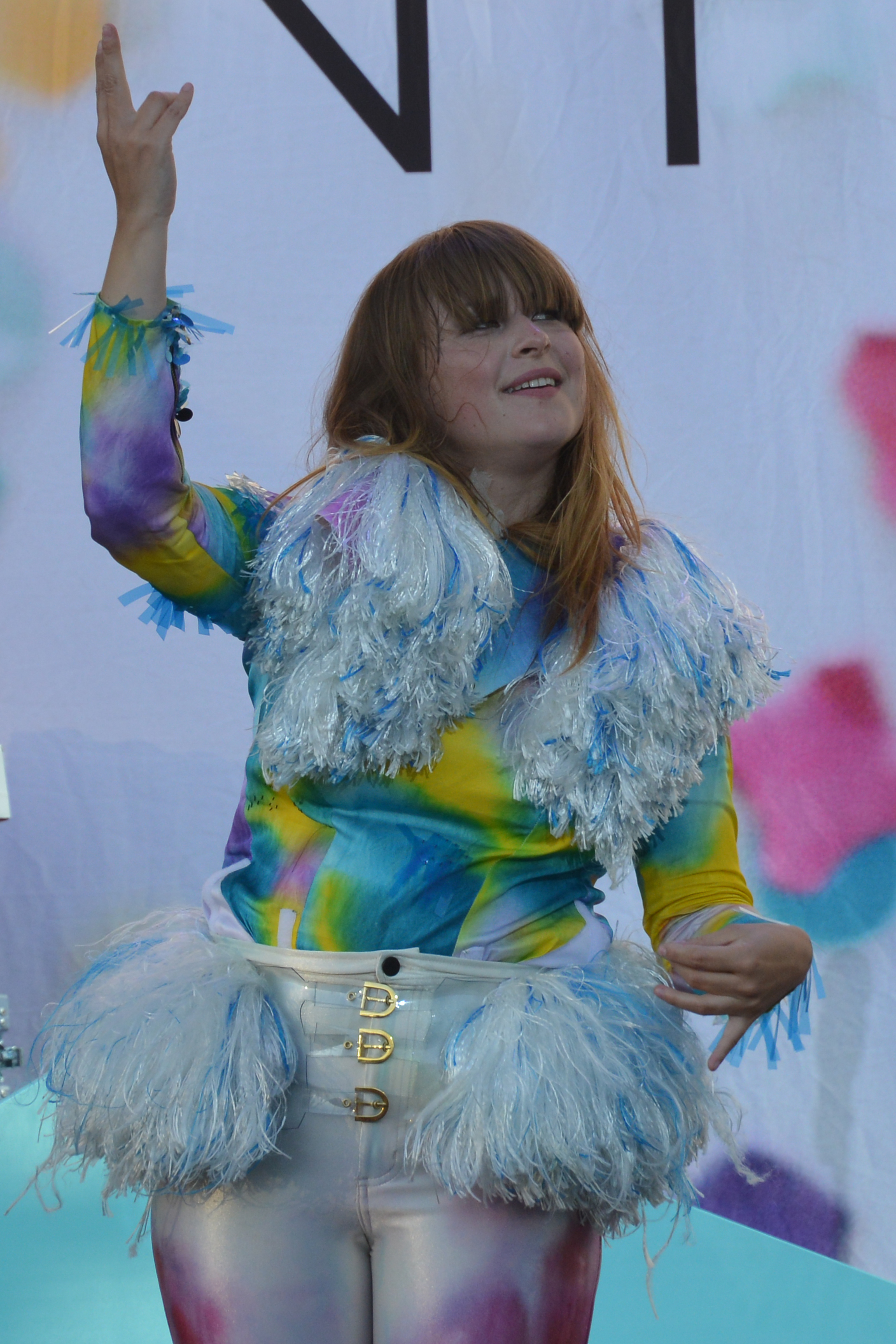 Linnea Henriksson is acts forband to Gyllene Tider 2013